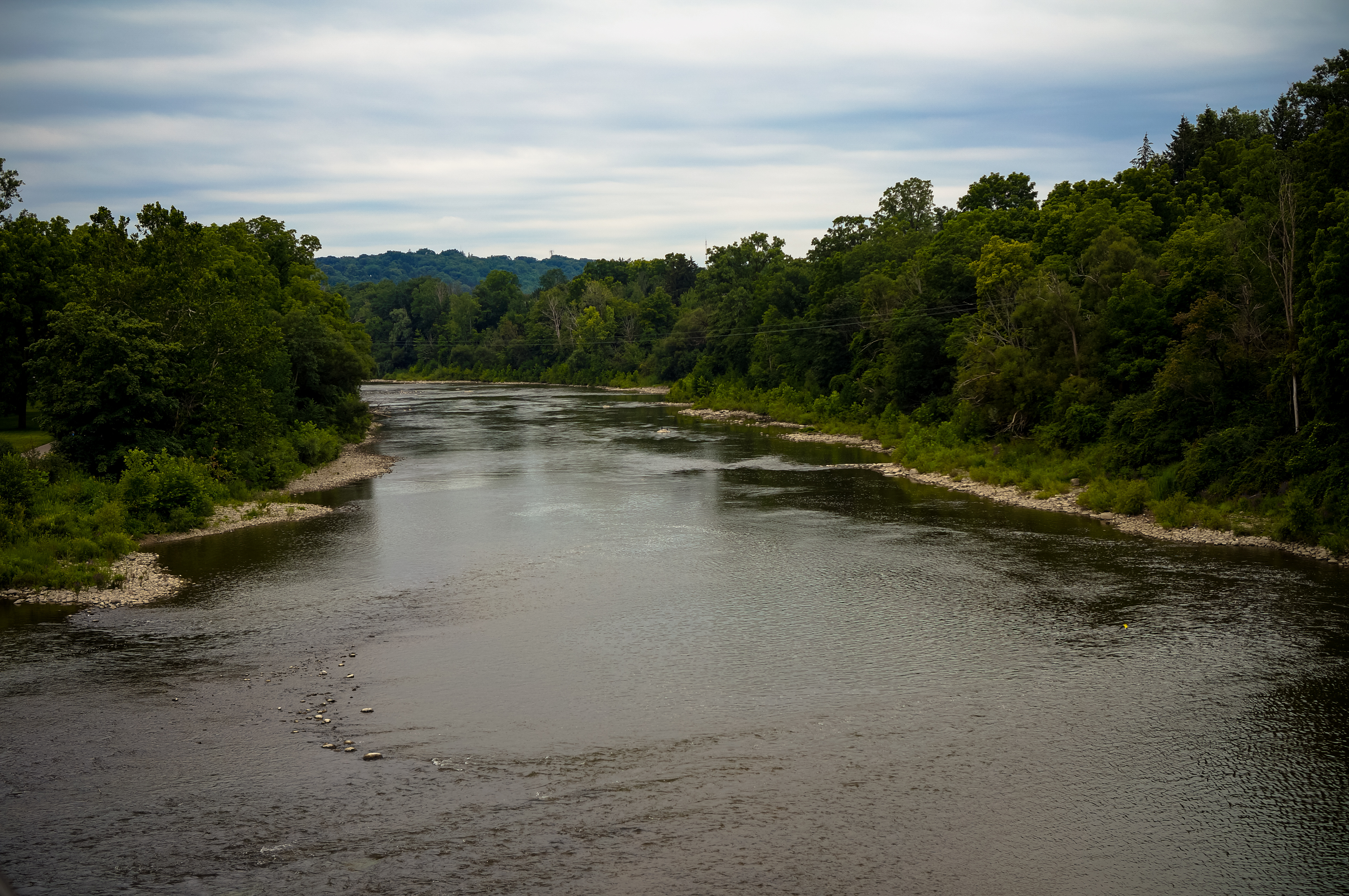 View of the Thames River in London, Ontario, facing South-West off of the bridge on Wonderland Road.